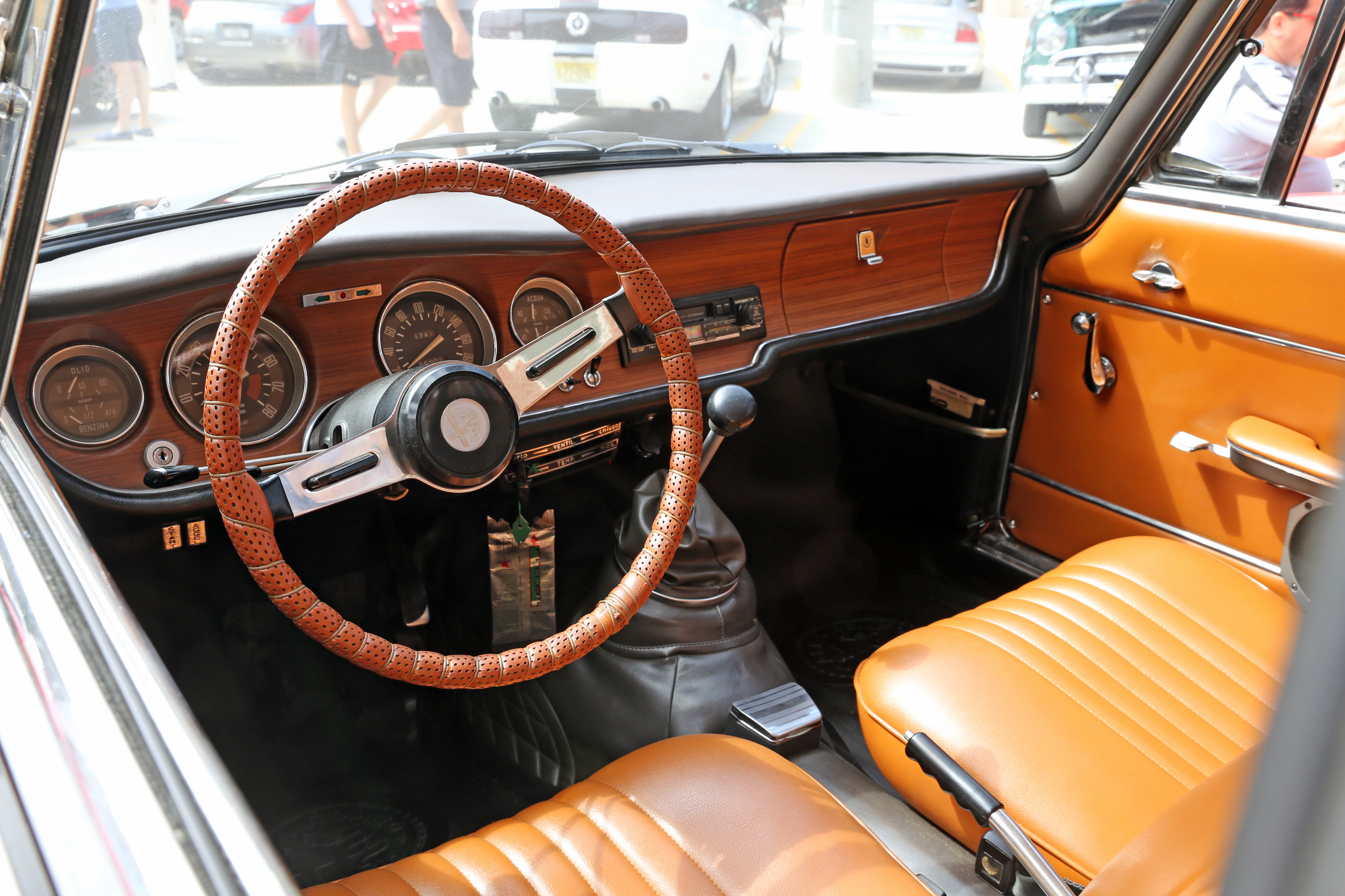 The interior and dashboard of an early (1968 if the steering wheel is original) Alfa Romeo GT 1300 Junior.